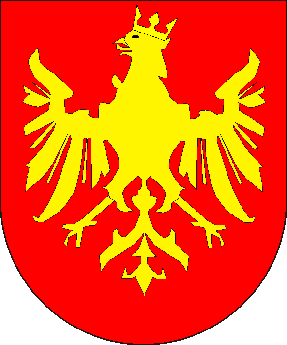 coat of arms of archbishop of Besancon